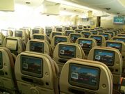 Section of lower deck on Emirates' A380 aircraft with economy class seats.